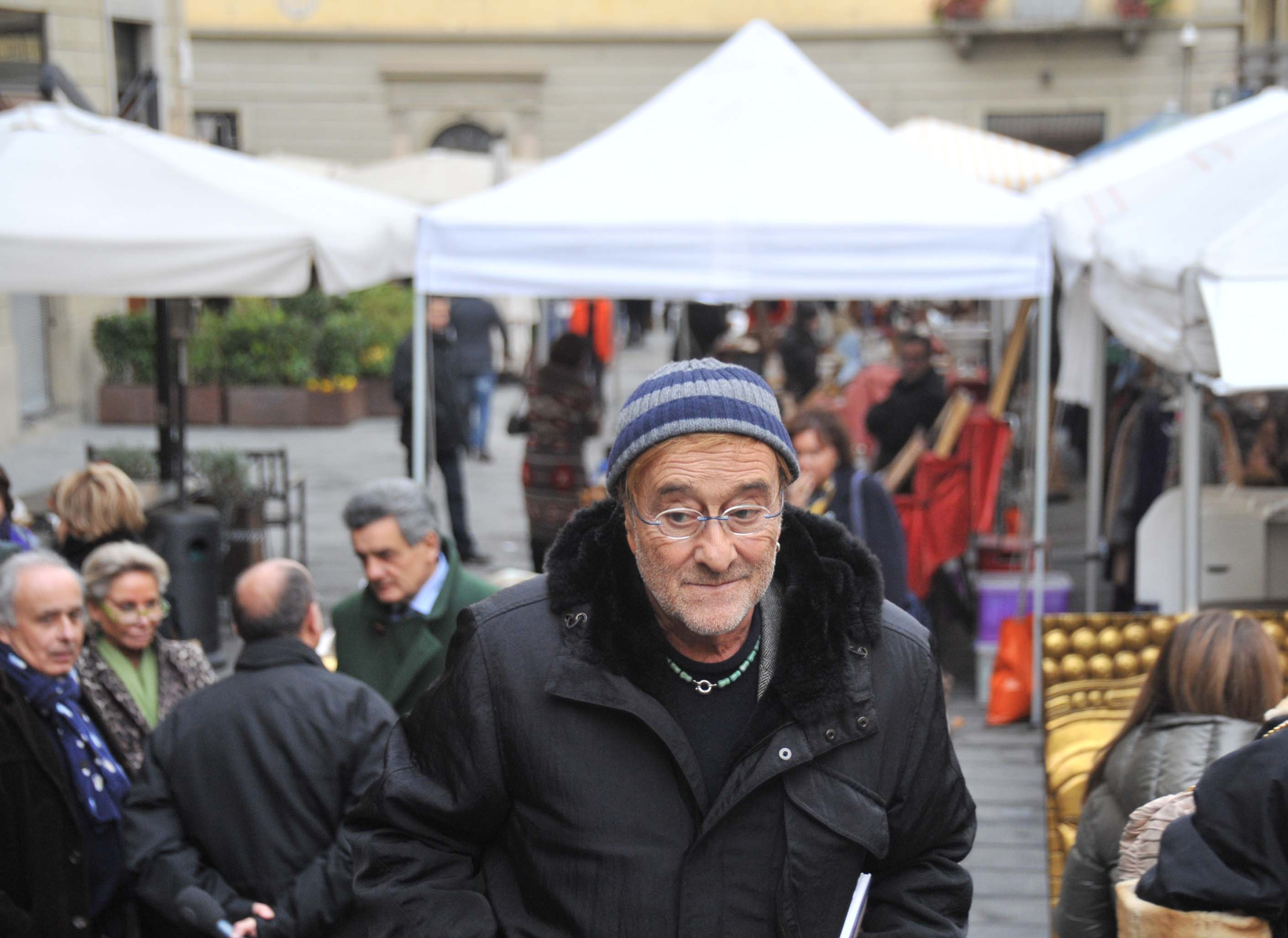 Lucio Dalla visiting "Fiera Antiquaria" in Arezzo